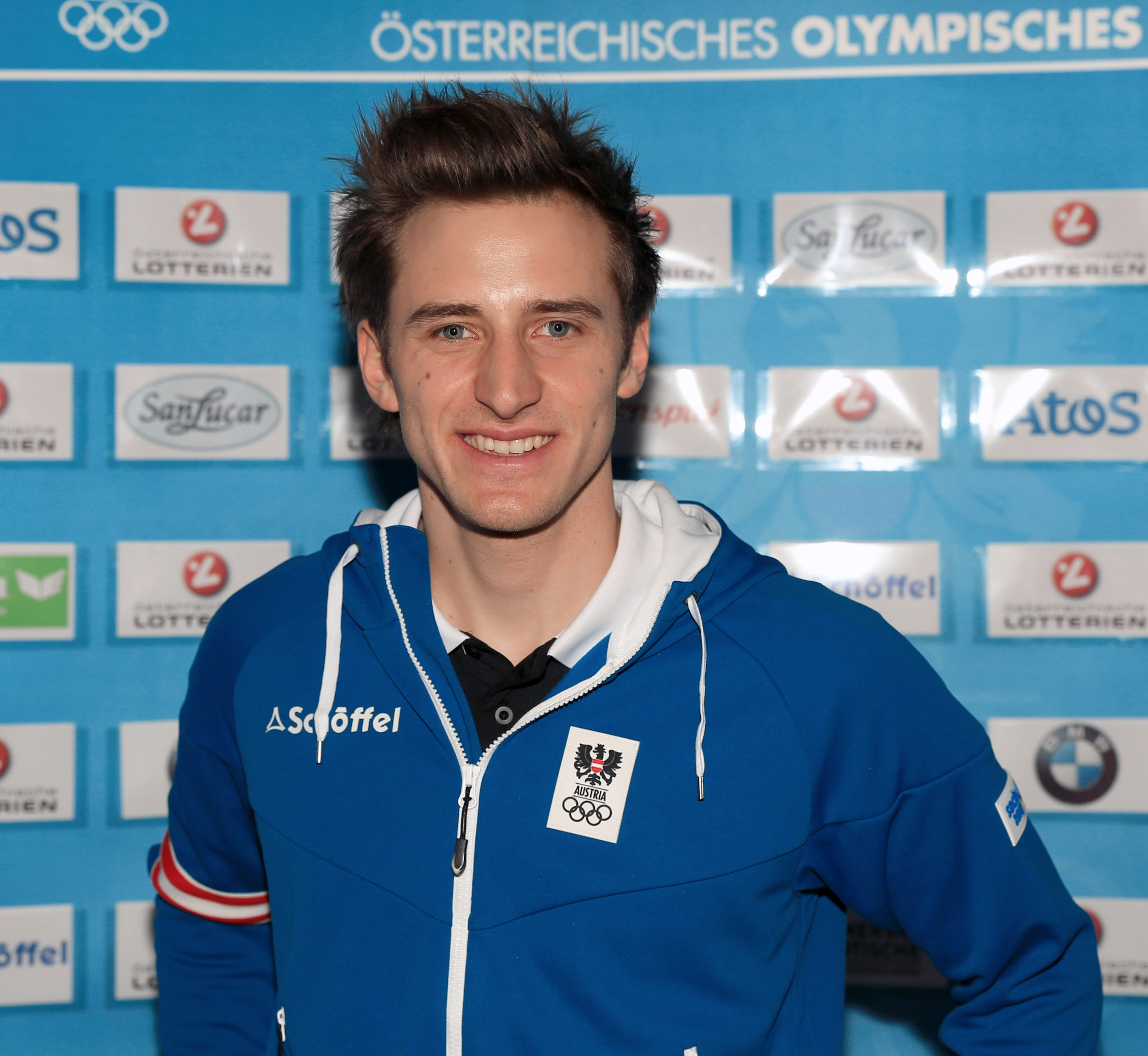 Matthias Mayer (alpine skiing) at the outfitting of the Austrian team for the 2014 Winter Olympics (Hotel Marriott in Vienna, Austria.